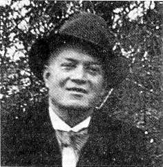 Ágoston Pável ar. 1930